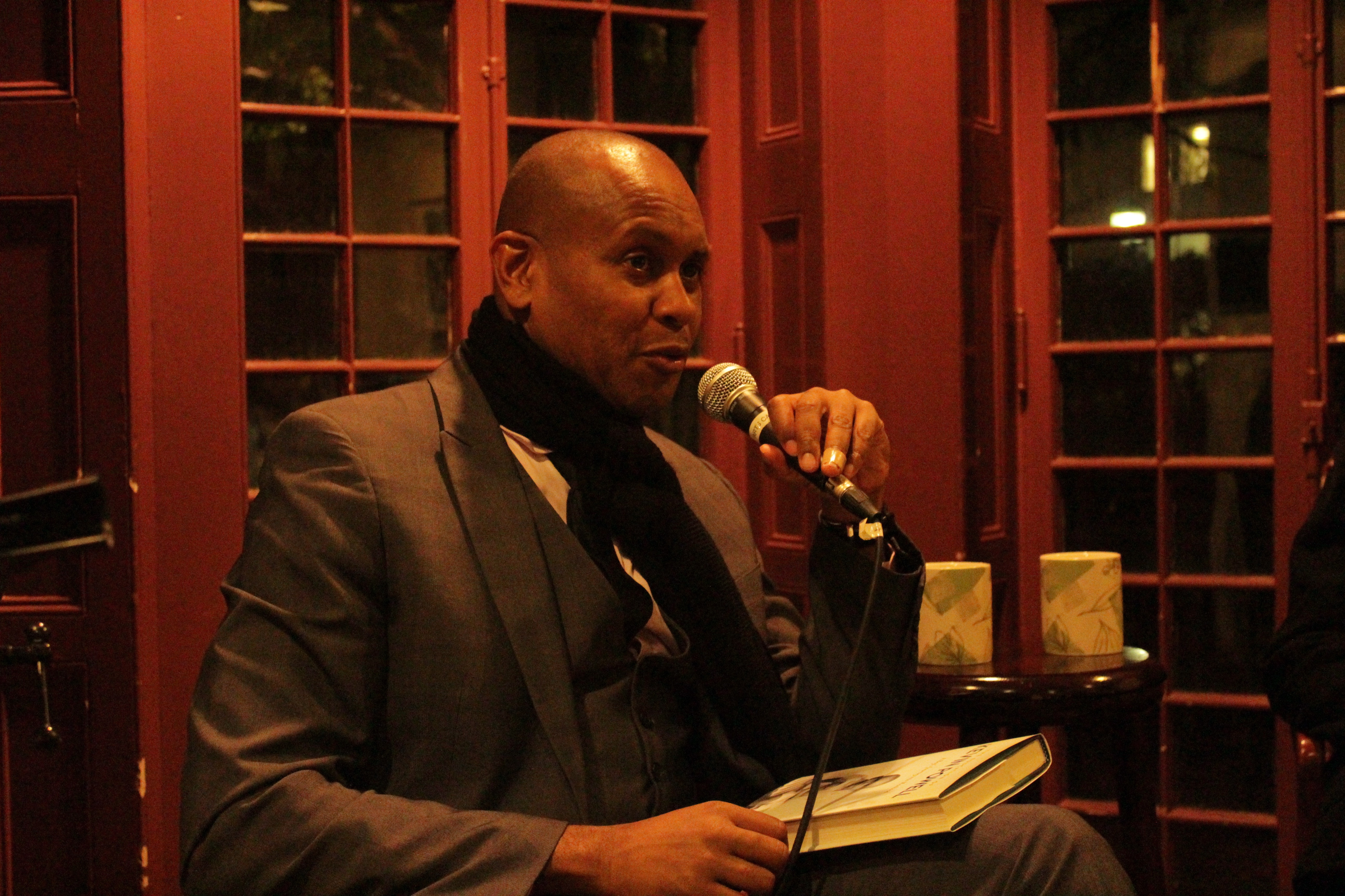 Kevin Powell, American writer